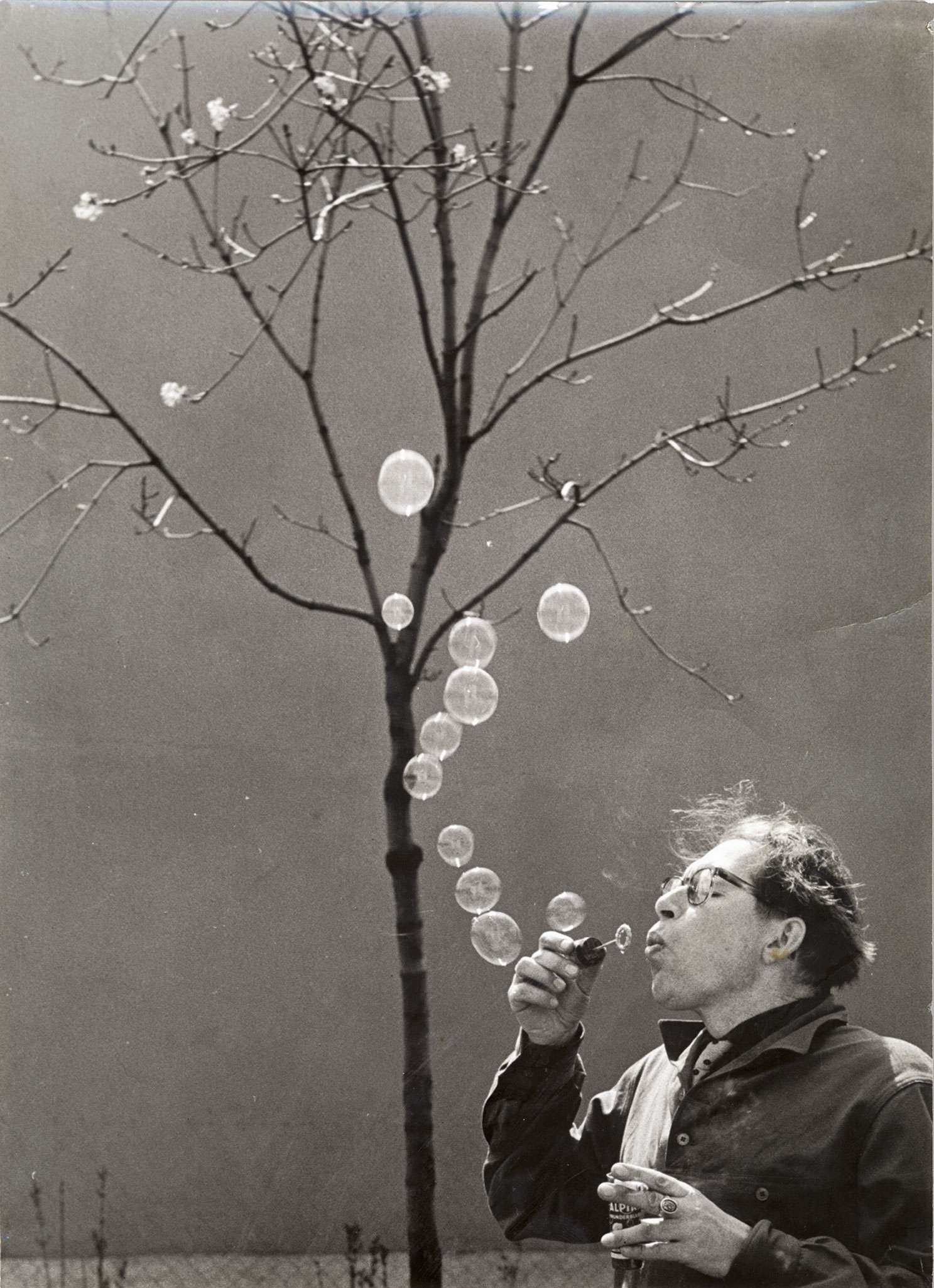 Portrait of the artist Ernst Graupner